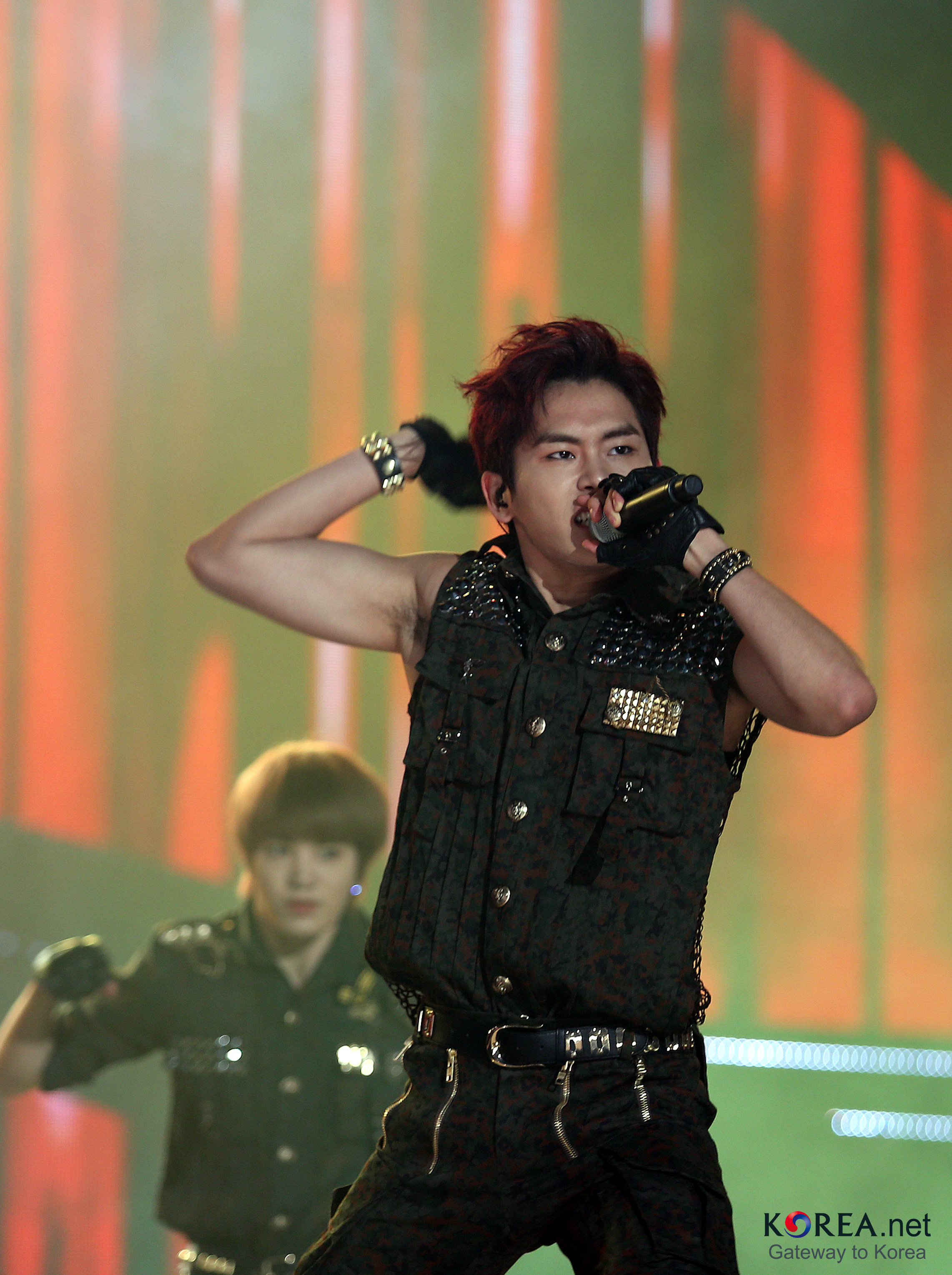 2013 K-POP World Festival in Changwon October 20, 2013 Changwon-si, Gyengsangnam-do Related Articles Cheong Wa Dae K-Pop World Festival unites global fans -English K-Pop World Festival unites global fans -中文 “2013 K-POP世界庆典” 用K-POP连结全世界 -Vietnamese Cả thế giới hội tụ tại “K-pop World Festival 2013” -日本語 「Kポップワールド・フェスティバル2013」、Kポップで世界が一つに -Deutsch „K-Pop World Festival” bringt internationale Fans zusammen -Francais Un festival mondial de la K-Pop 2013 de haute volée -Russian K-Pop World Festival объединяет фанатов со всего мира -Arabic المهرجان العالمي للبوب الكوري يوحد الجماهي Ministry of Culture, Sports and Tourism Korean Culture and Information Service ( Jeon Han 2013 제3회 K-POP 월드페스티벌 2013-10-20 경상남도, 창원시 문화체육관광부 해외문화홍보원 코리아넷 전한